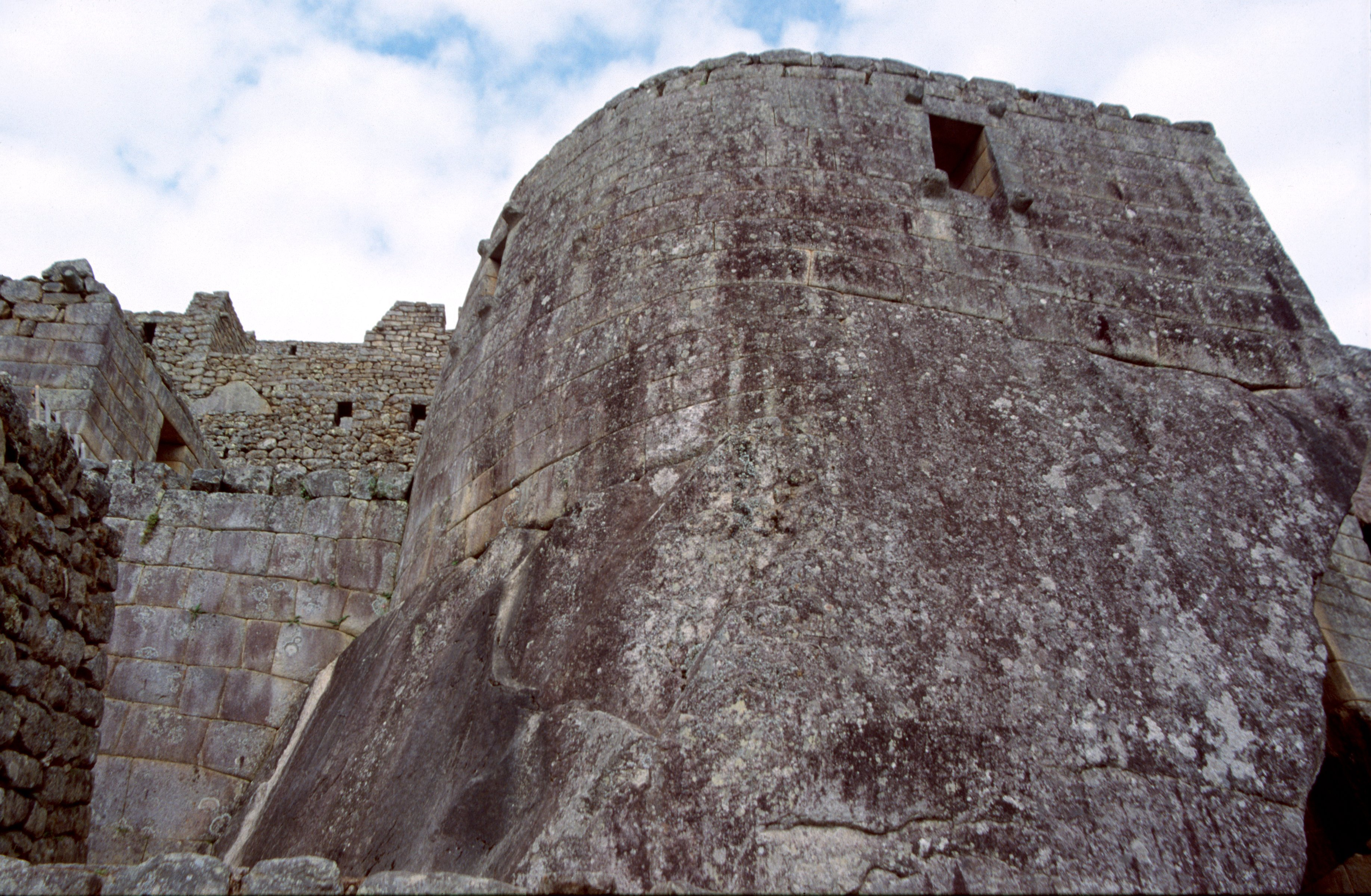 Machu Picchu, Perú. Temple of Sun's Torreon.